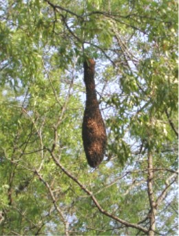 A honeybee swarm